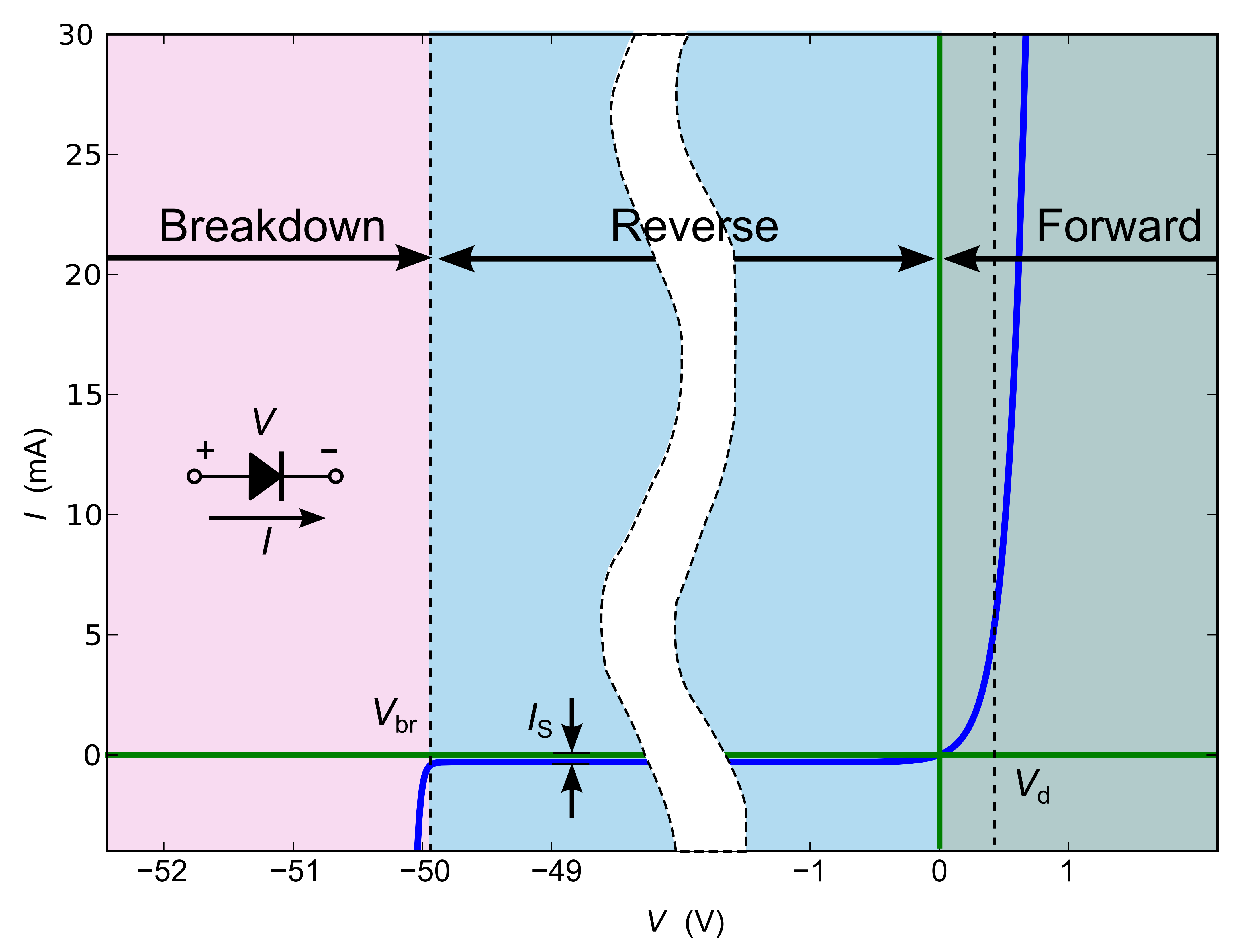 Current vs voltage for a semiconductor diode rectifier